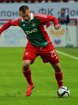 Petar Škuletic